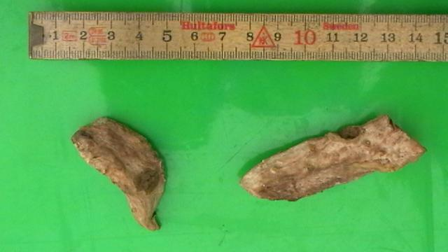 Dried roots of Iris germanica (Orris root), ready to be sold by the planter Walon: Souwêyès raecinêyes di cladjot d' corti, presses a esse vindowe på cotlî